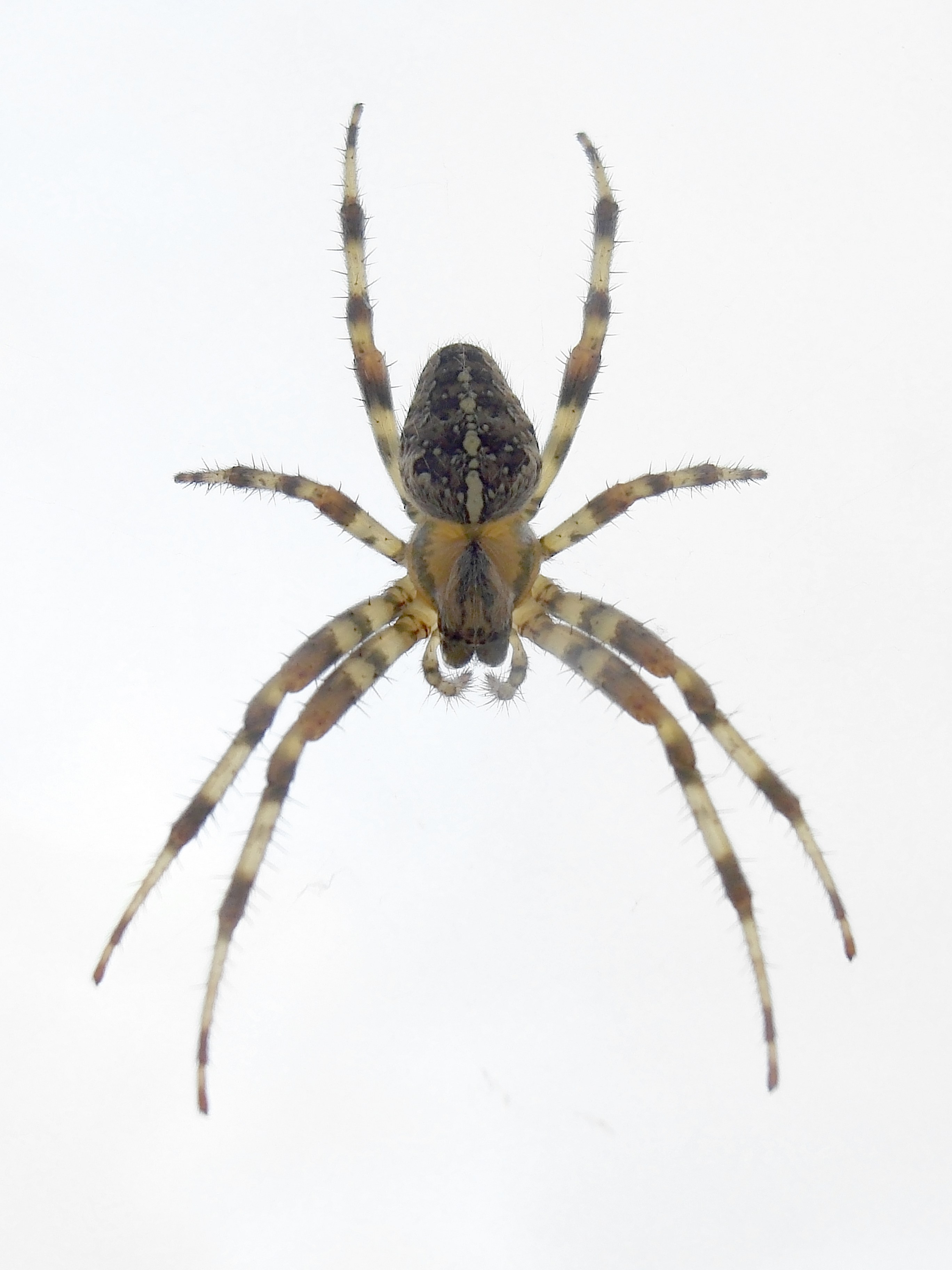 A spider. I think it is Araneus diadematus. Size 3cm X 1.5cm approx. Photo taken in Ireland.